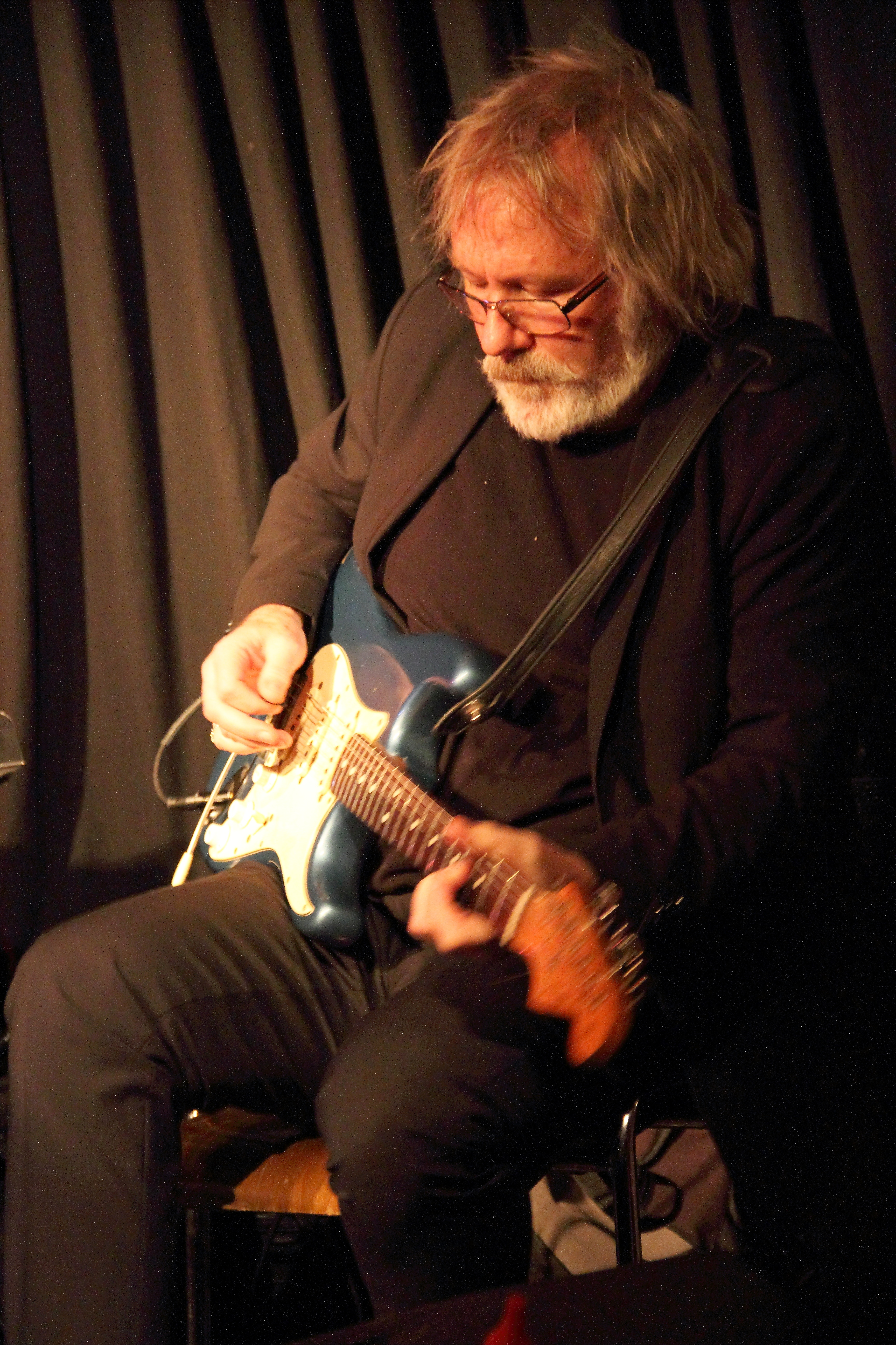 Band leader Mars Williams and his project are interpreting traditional Christmas songs and tunes of Albert Ayler. Here it´s a concert at Club W71, Weikersheim. Band members are Mars Williams (sax), Jaimie Branch (tr), Knox Chandler (g), Klaus Kugel (dr) & Mark Tokar (db).